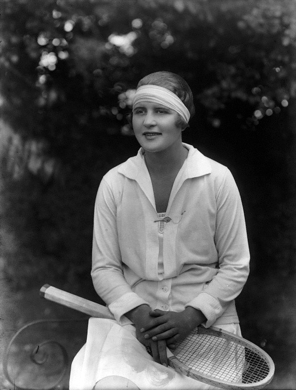 South African tennis player Bobbie Heine Miller by Bassano, whole-plate glass negative, 1927